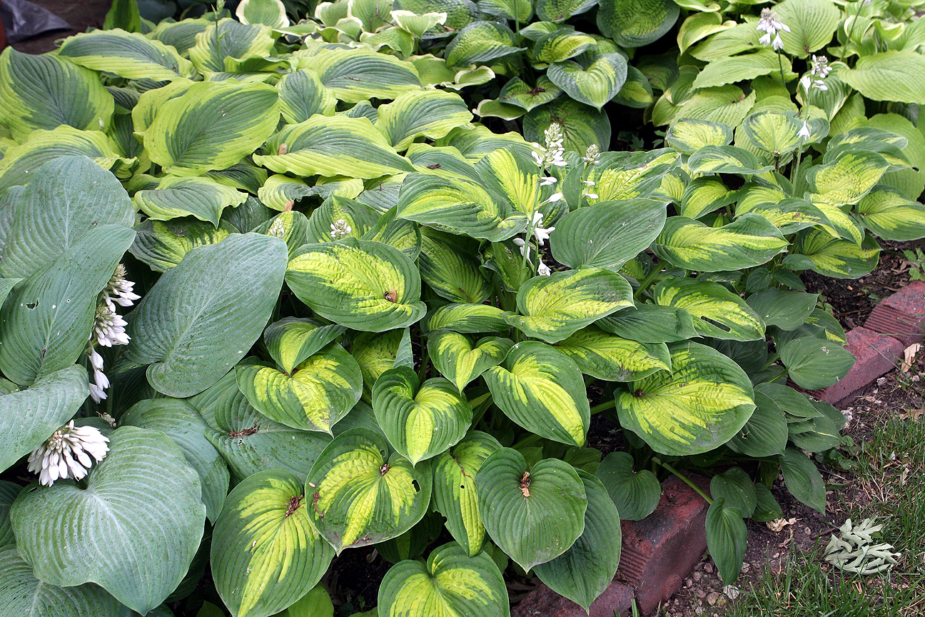 A collection of Hosta. Self made, taken summer of 2009.